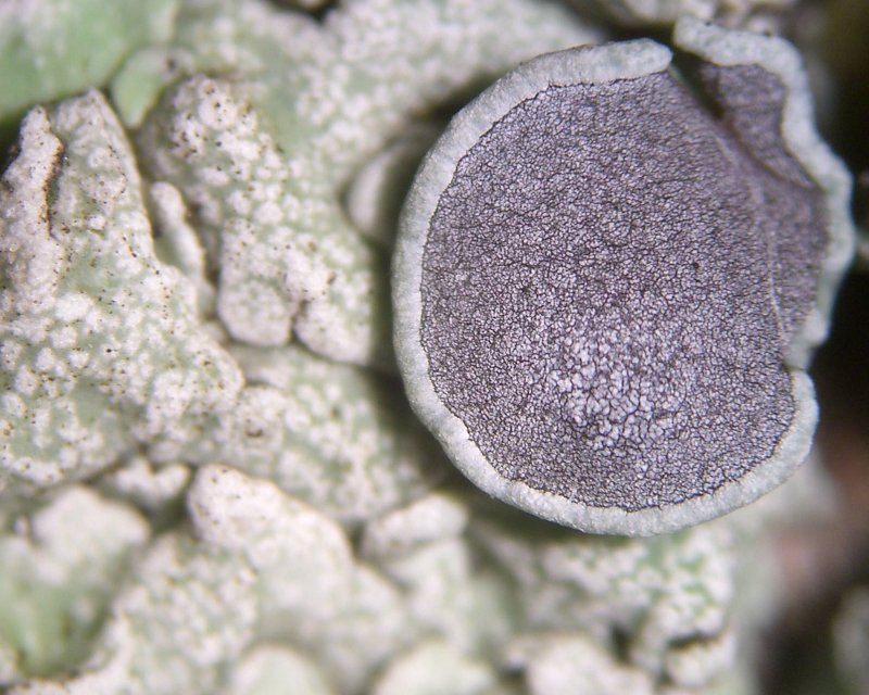 Scientific Name: Physcia aipolia (Ehrh. ex Humb.) Furnr. Common Name: Hoary Rosette Lichen Certainty: positive (notes) Location: Great Plains; Texas; Hill Country Date: 20070113 Close-up of apothecia and maculae, at 30x.